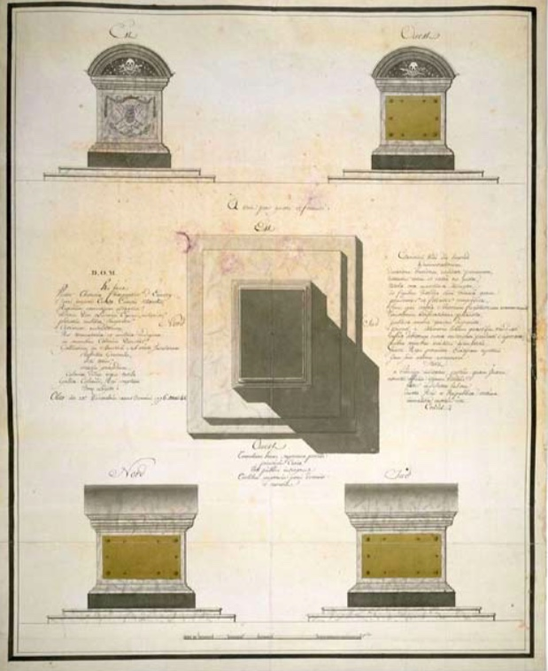 Dessin original du tombeau du comte d'Ennery à Port-au-Prince